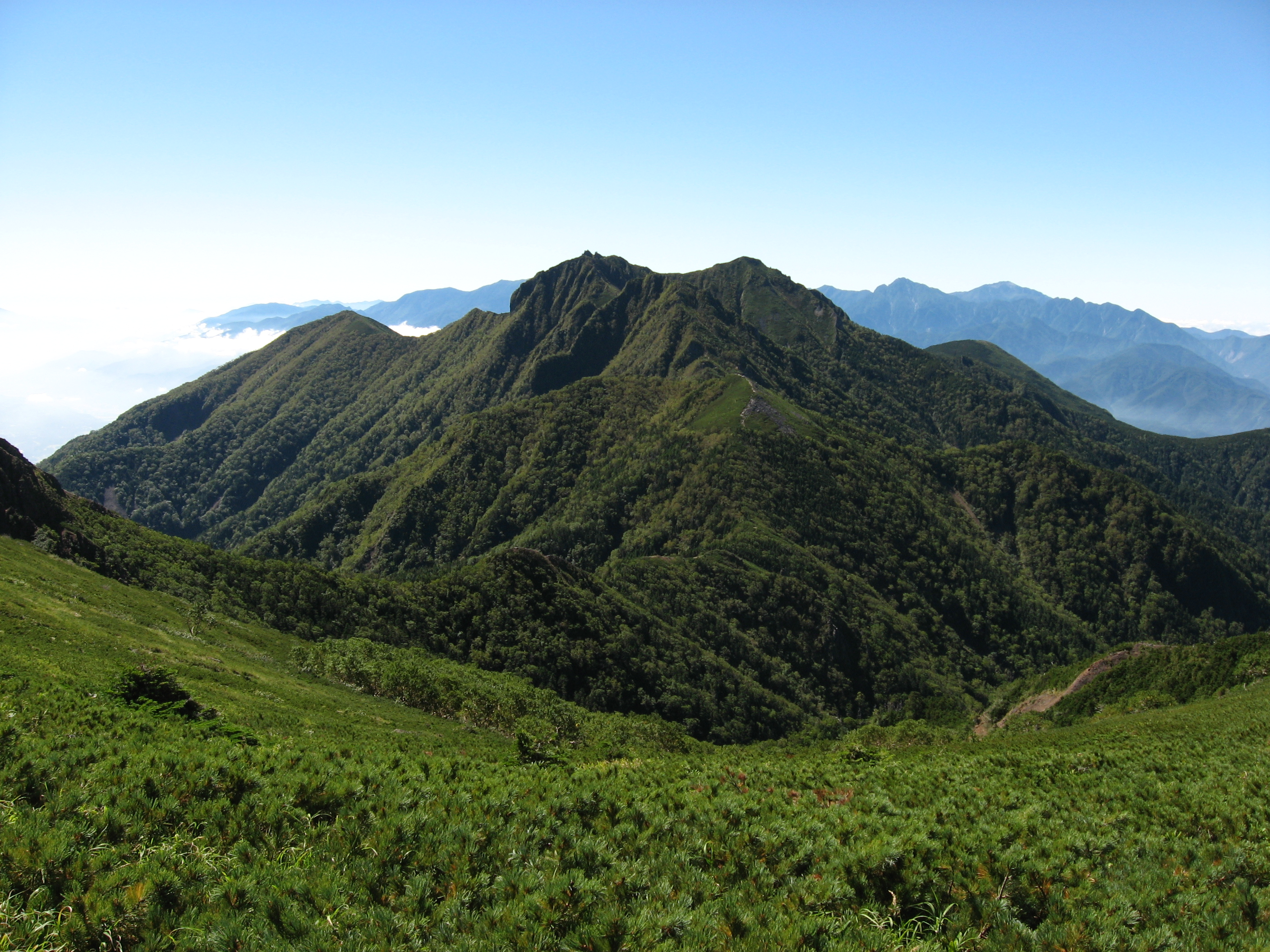 Mount Gongendake